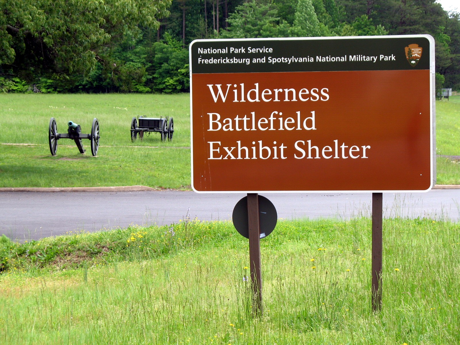 Wilderness Battlefield Exhibit, Route 20, Locust Grove, Virginia